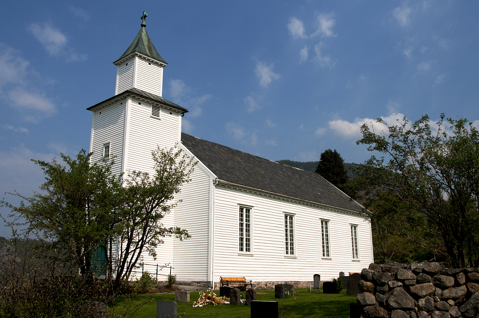 Fister kyrkje